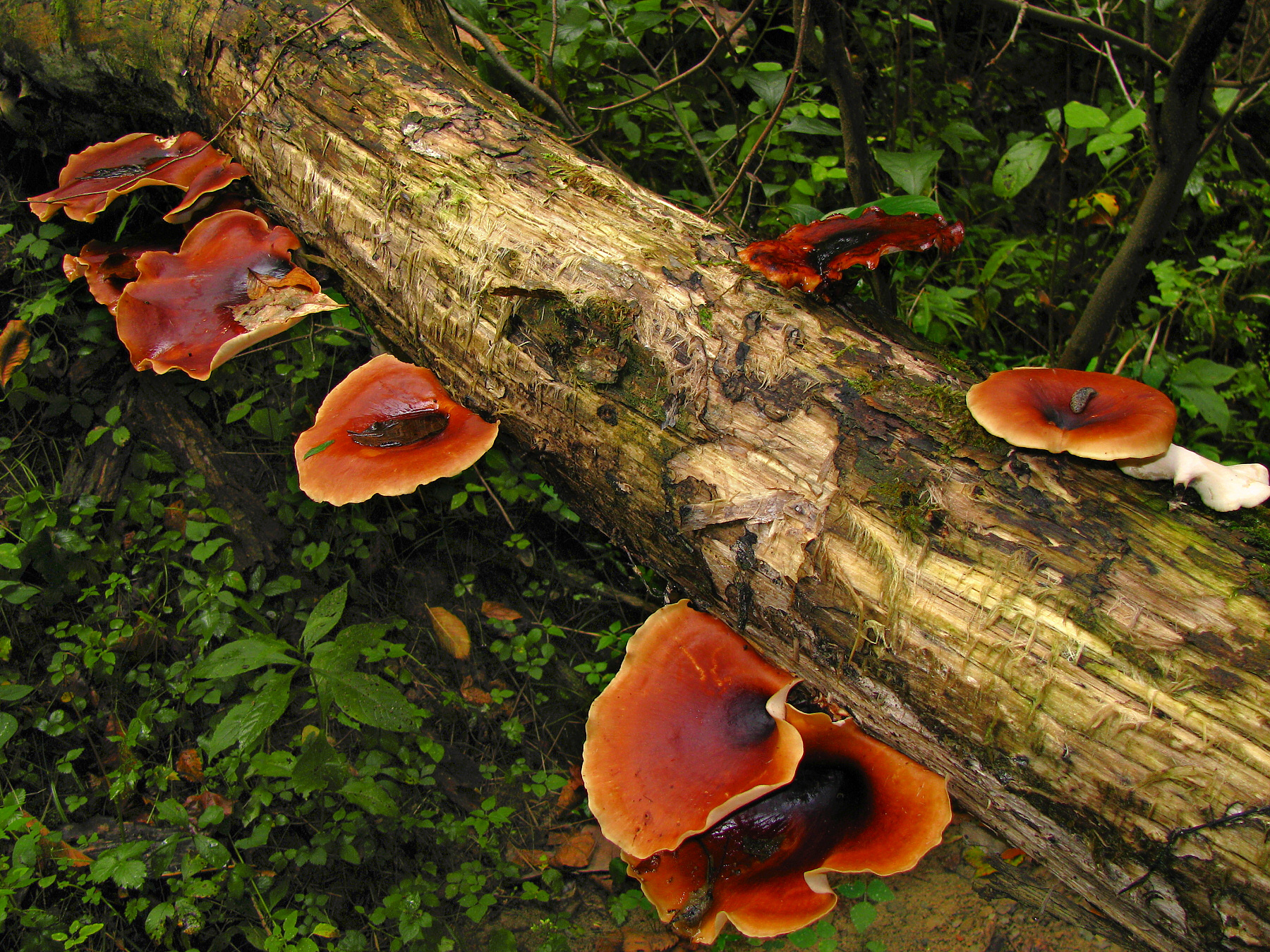 The fungus Polyporus badius Berk. Specimen photographed in Strouds Run State Park, Athens, Ohio, USA